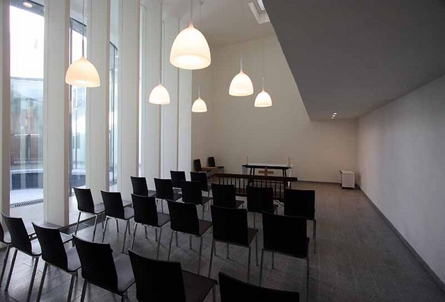 St Martin in the Fields, Trafalgar Square - Dick Sheppard Chapel This chapel is in the crypt